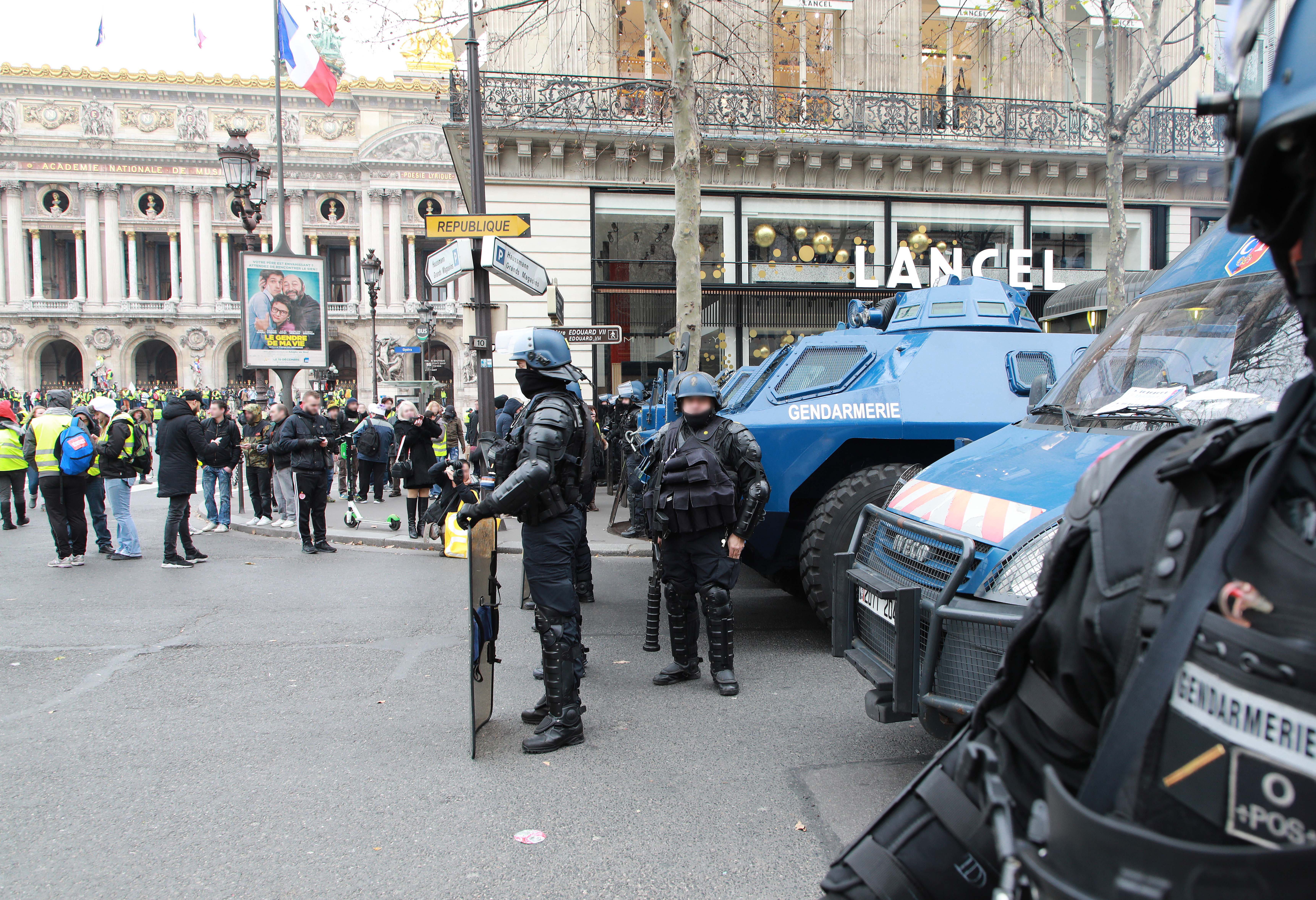 French Mobile Gendarmerie VBRG armoured vehicle, Paris - Place de l'Opéra. December 2018